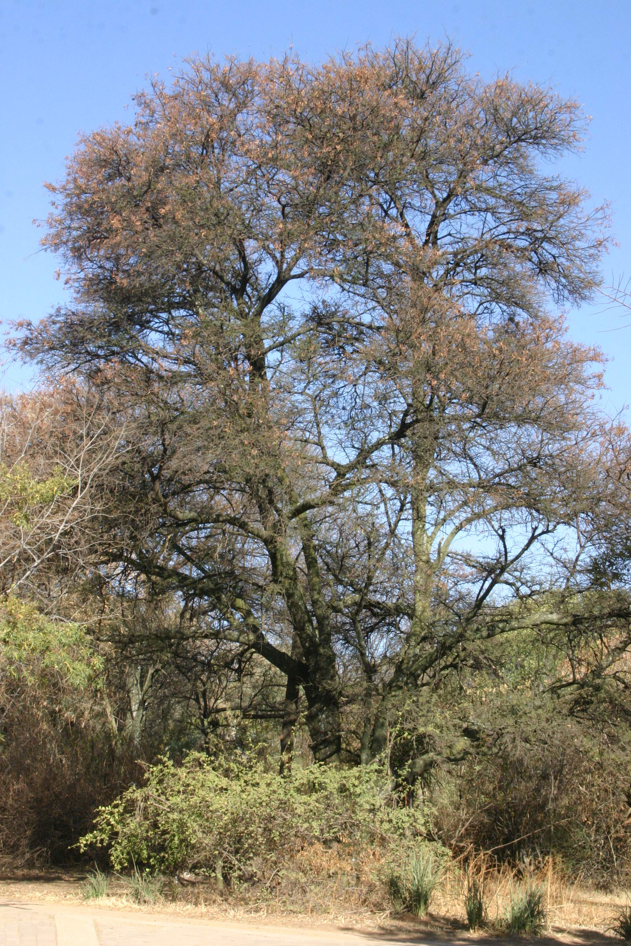 Acacia karroo, Chucklenook, Honeydew, Johannesburg